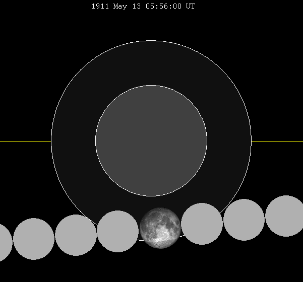 =lunar eclipse chart of moon's path through the earth's shadow. thumb